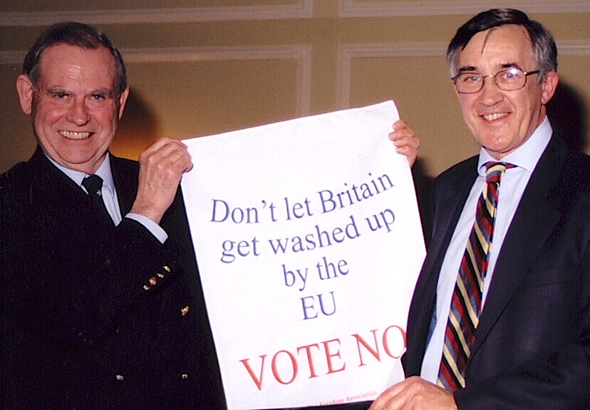 Christopher Gill and Gerald Howarth MP show their opinion of the EU.